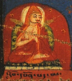 Padmakaravarma - eleventh century Indian Buddhist scholar